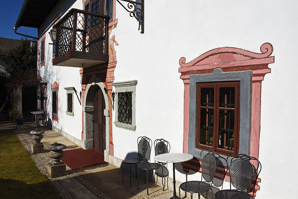 The mansion in Spodnje Duplje